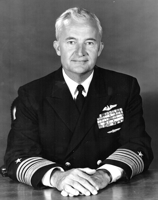 ADM I. J. Gallantin, USN